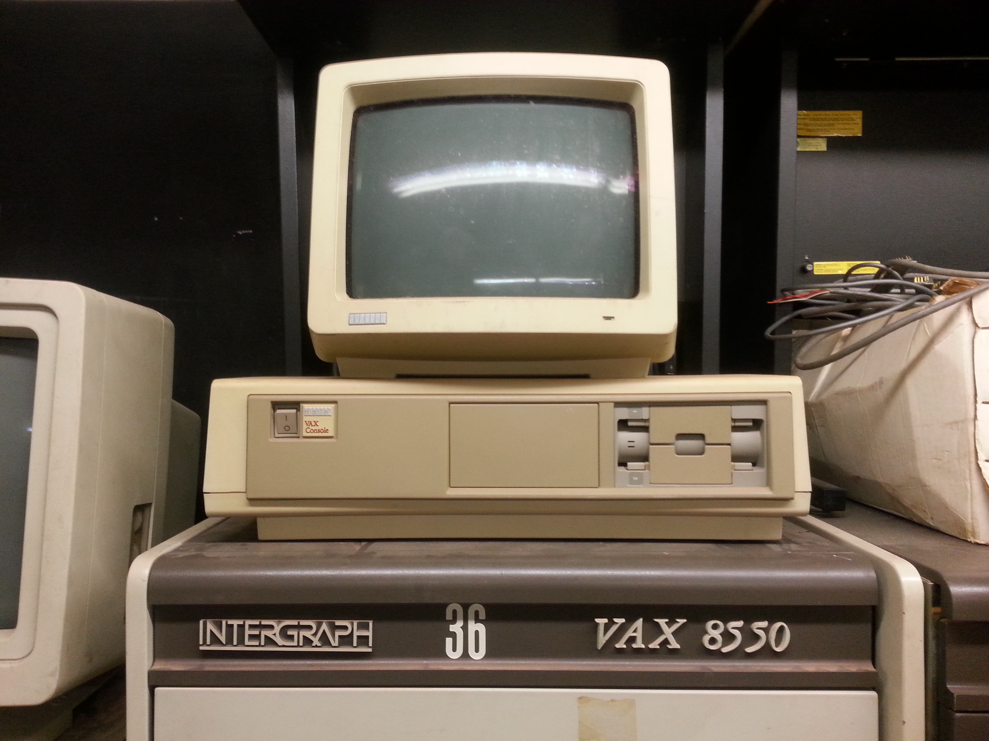 VAX Console. A DEC (Digital Equipment Corporation) Professional pdp-11 workstation used as a console for a VAX 8550